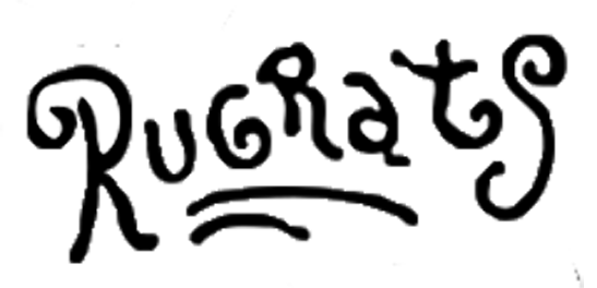 Rugrats vectorized logo